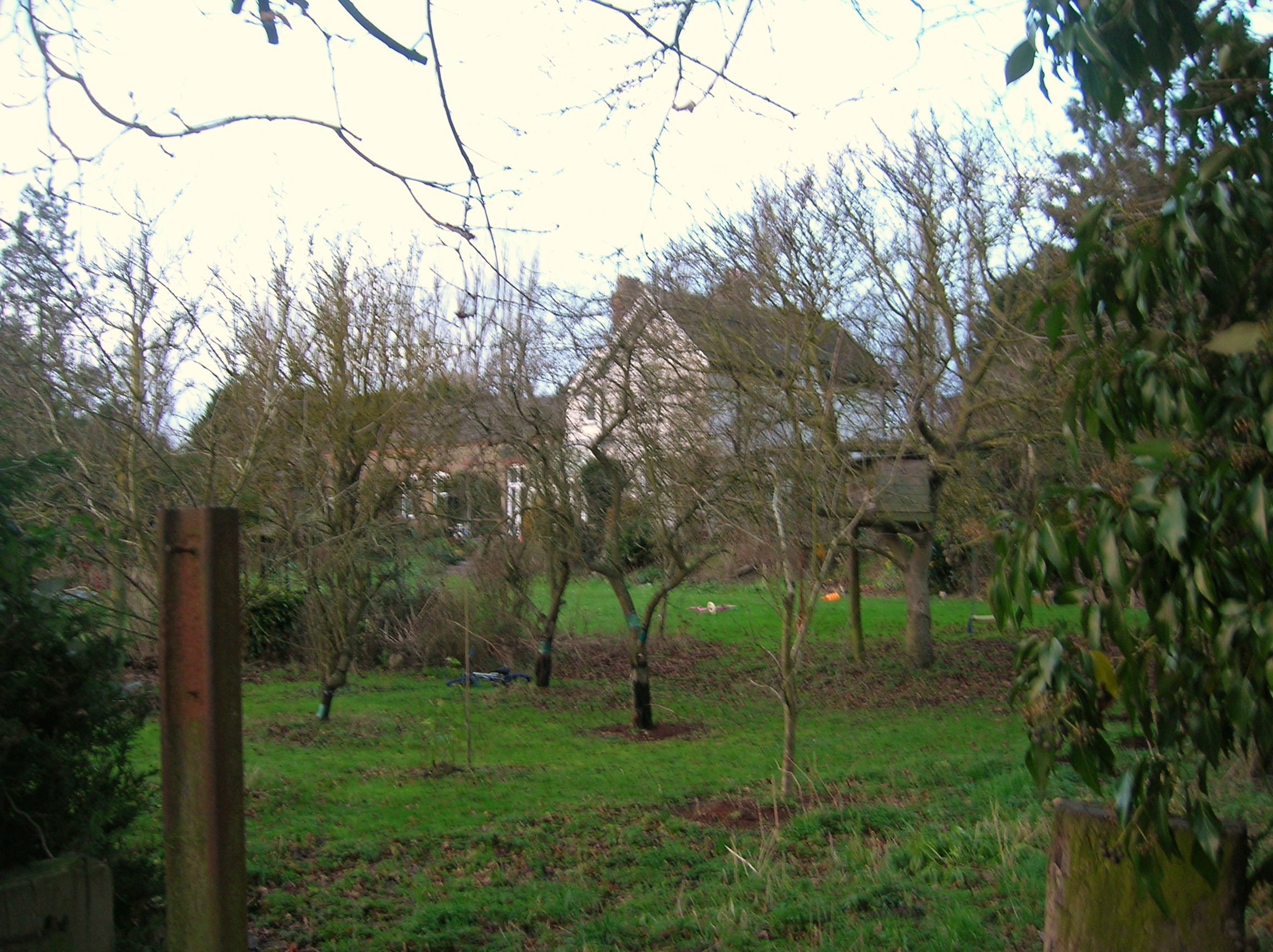 A photo of the main station buildings and platform of the former Foulsham railway station in Norfolk, UK.